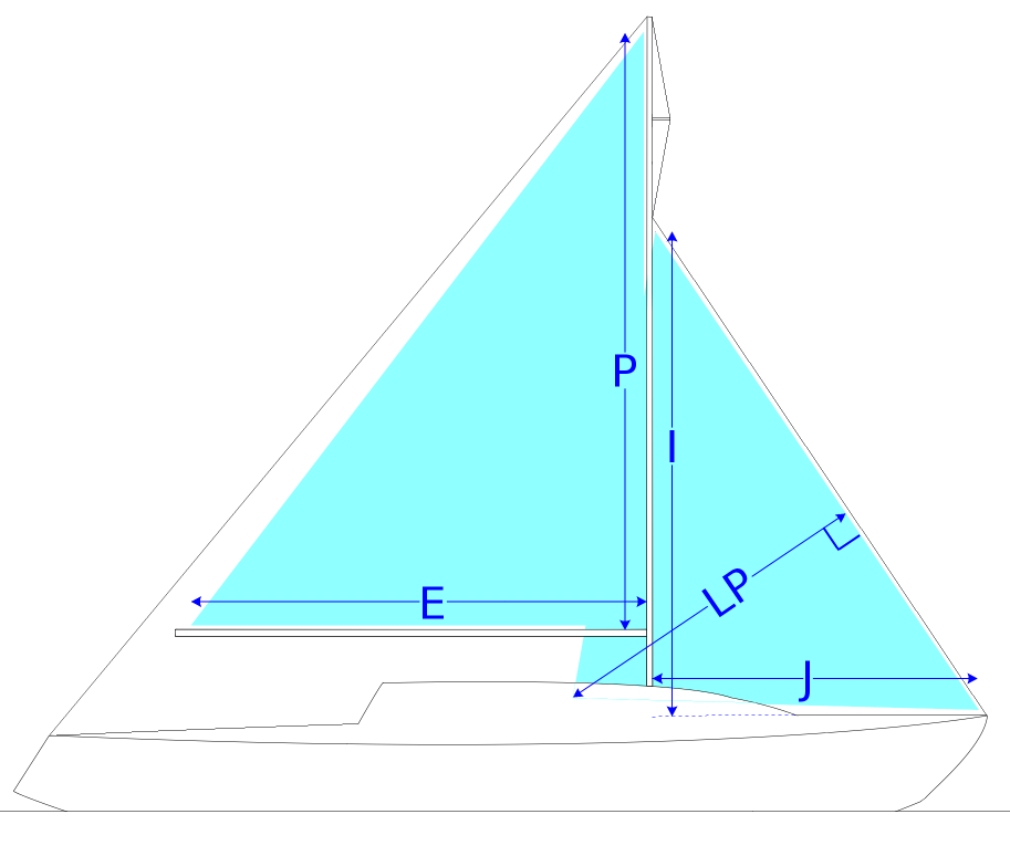 Line drawing of sailboat describing I P J E and LP sail measurements.